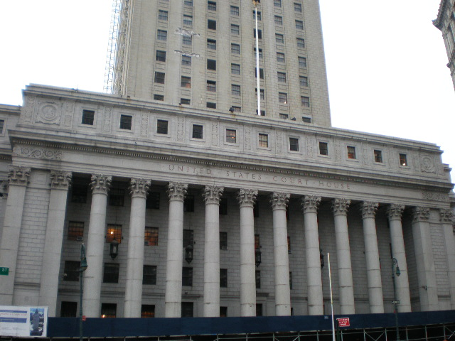 This photo is of Wikipedia Takes Manhattan location code 173, Foley Square. Thurgood Marshall U.S. Courthouse at 40 Centre Street.